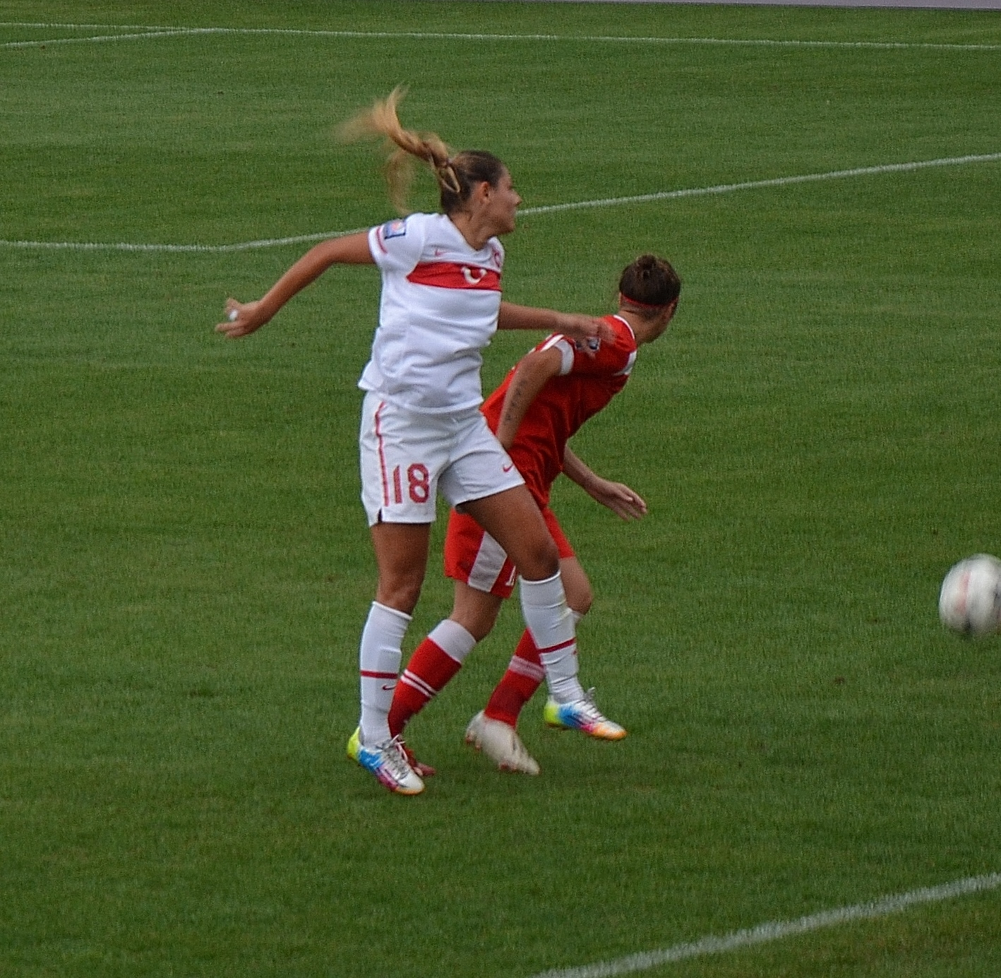 Eylül Elgalp for Turkey women's national football team in the home match against Belarus